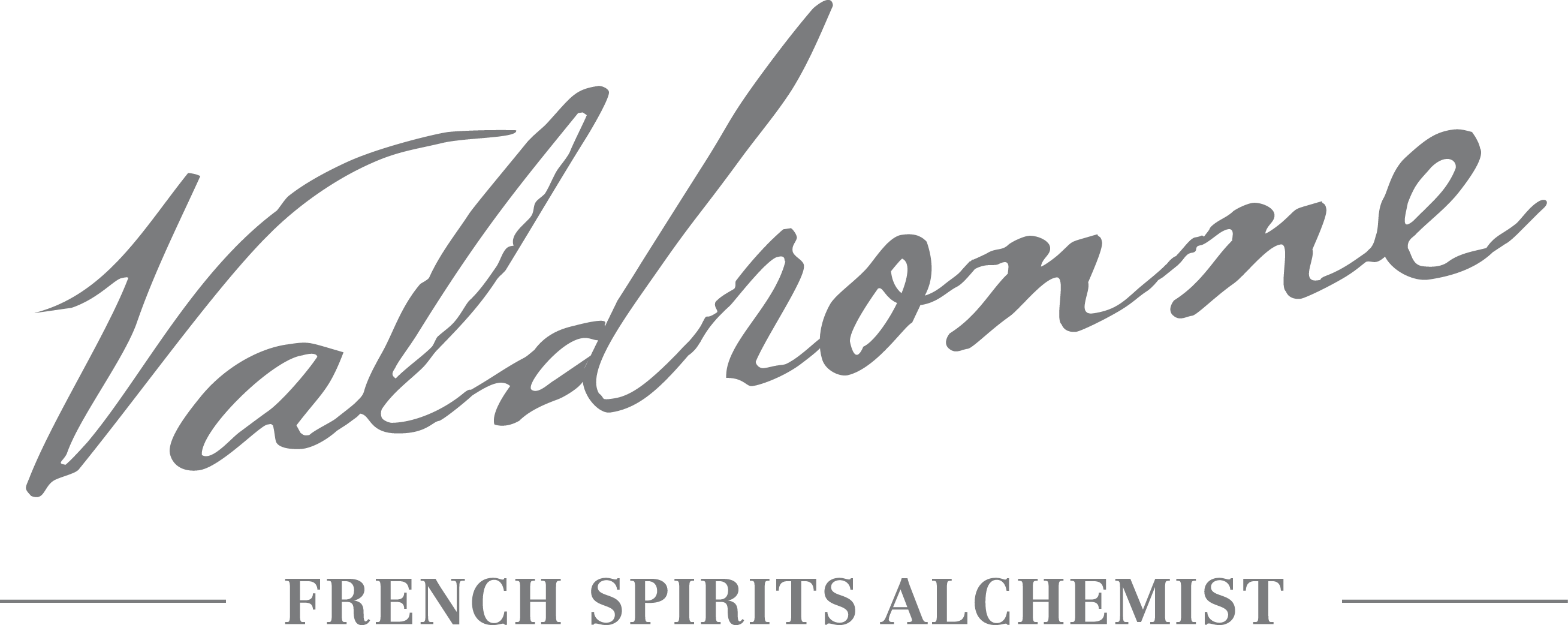 Logo Valdronne